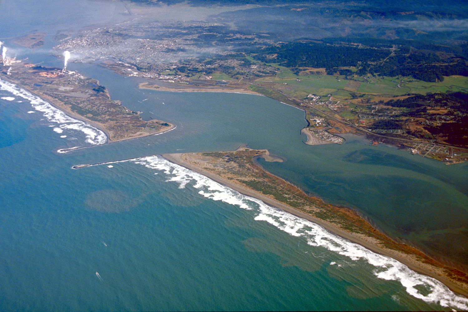 Aerial view of Humboldt Bay and the city of Eureka in Humboldt County, California, USA. View is to the northeast. Coordinates: 40°45′13.53″N 124°12′54.73″W / 40.7537583°N 124.2152028°W